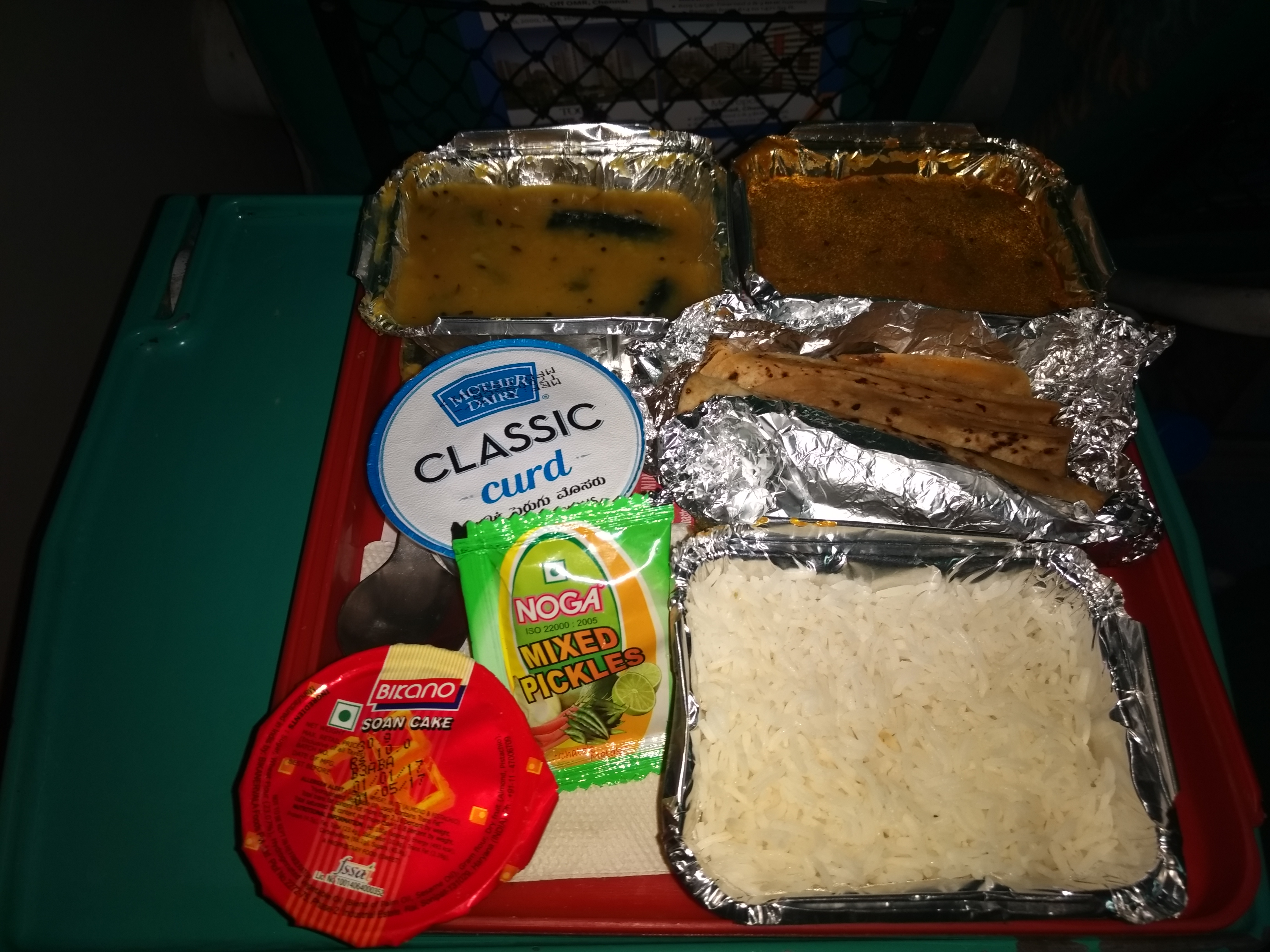 Vegetarian Dinner served on the Chennai Central - KSR Bengaluru City Shatabdi Express (12027). Consists of Dal, veg curry, two rotis, rice, a cup of curd, Indian pickle and a packet of Sohan papdi (Sugary Indian dessert)